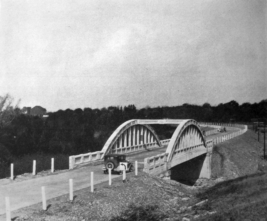 Highway 21 crossing a new bridge near Petrolia, Ontario, shortly after the highway was assumed by the Department of Highways